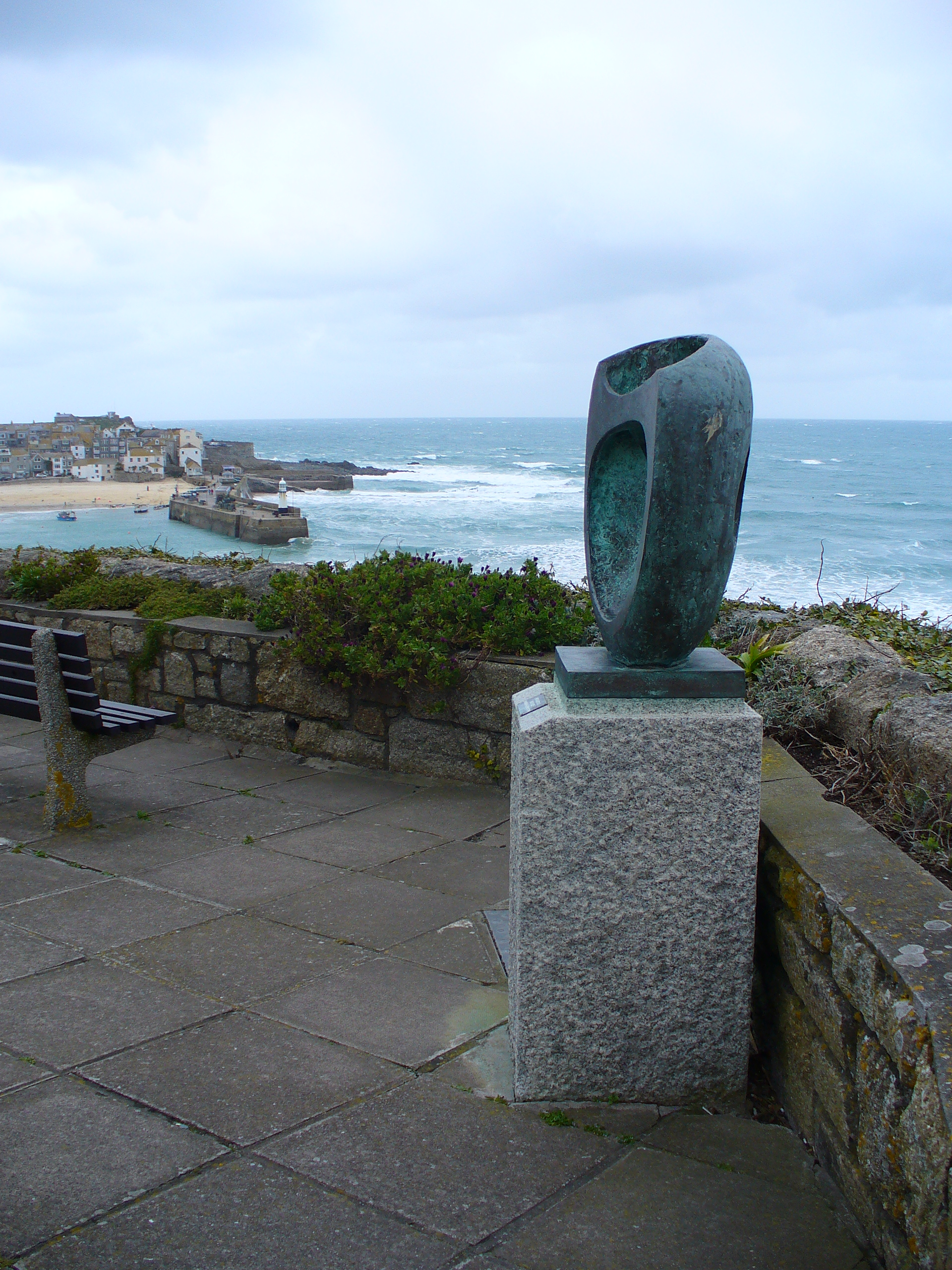 A Barbara Hepworth sculpture in St Ives, Cornwall